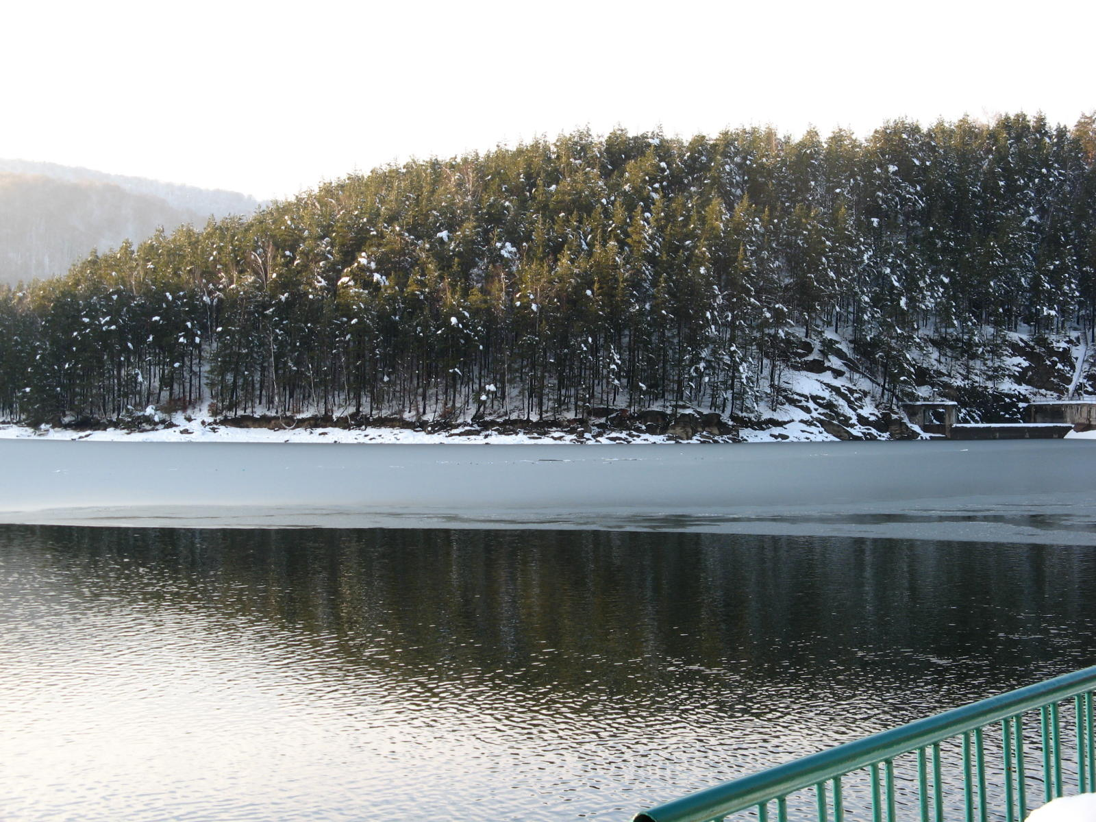 Gozna reservoir near Văliug (Franzdorf), Caraş-Severin county, Romania